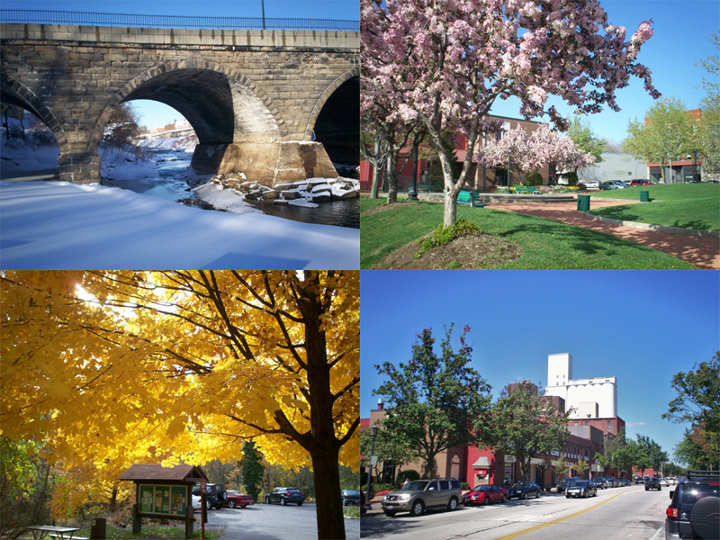 Montage showing the different seasons in Kent, Ohio. From clockwise top left: The Main Street Bridge in winter after a snowfall (5 February 2010); Home Savings Plaza downtown in spring (19 April 2010); North Water Street with Star of the West Mill in background in summer (1 September 2009); Tannery Park along the Cuyahoga River in fall (25 October 2009).